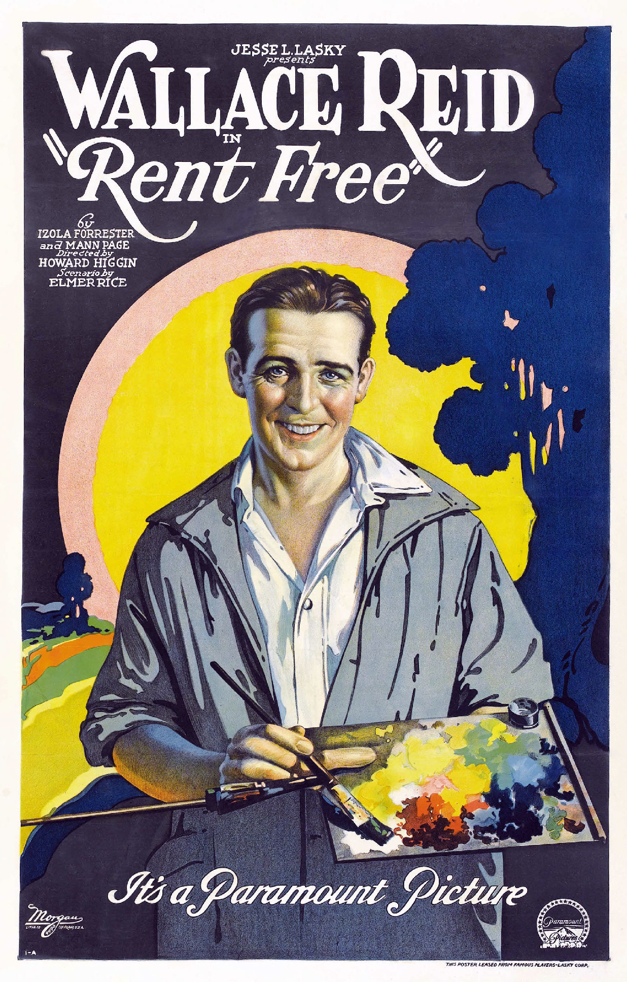 Movie poster for Rent Free (1922) with Wallace Reid.